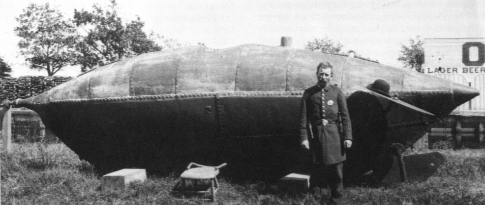 Confederate submarine on display at Spanish Fort, New Orleans. "Over The Rhine" beer garden attraction visible in background.